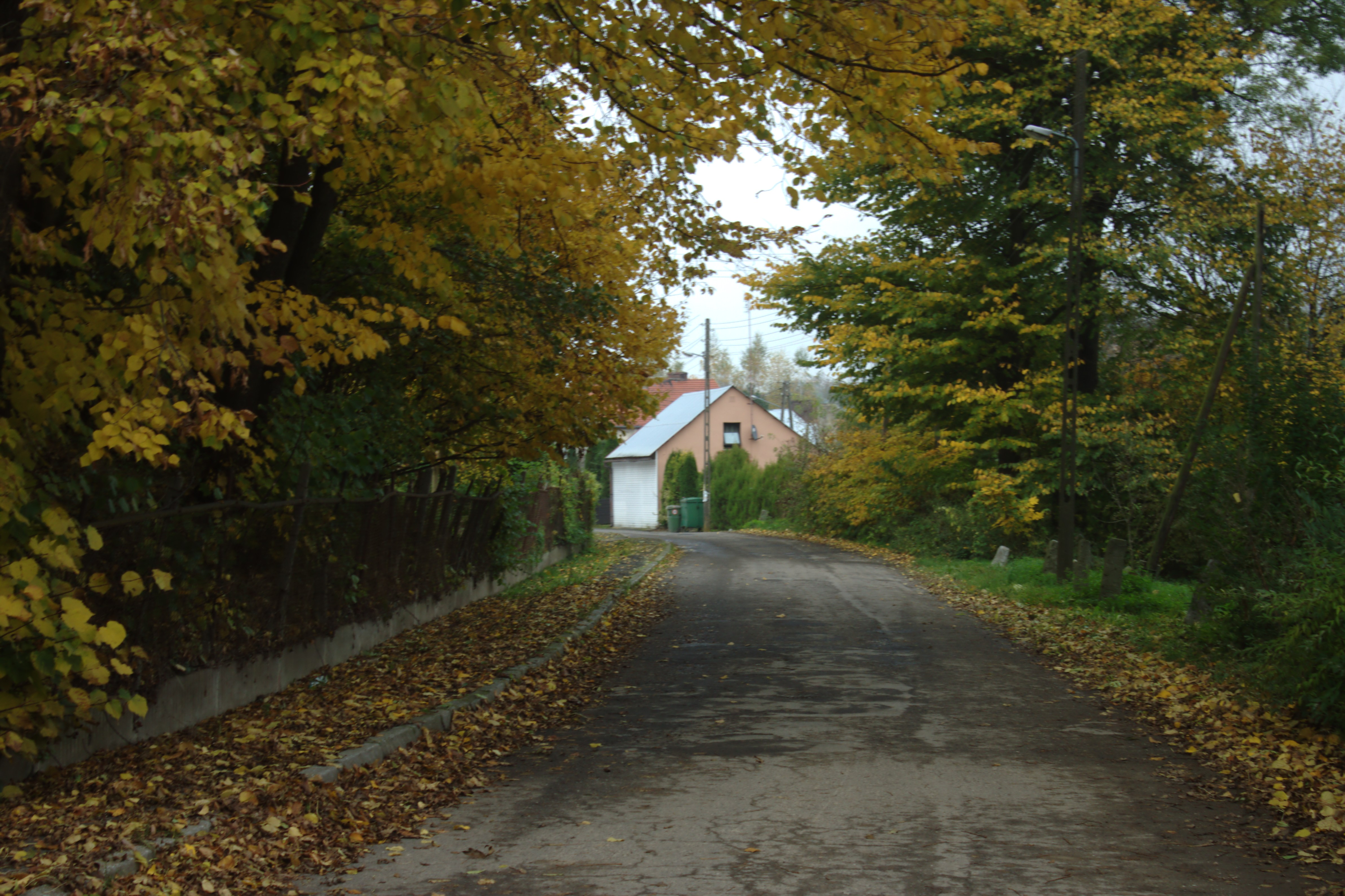 A road in the village of Zawiszyce, Poland